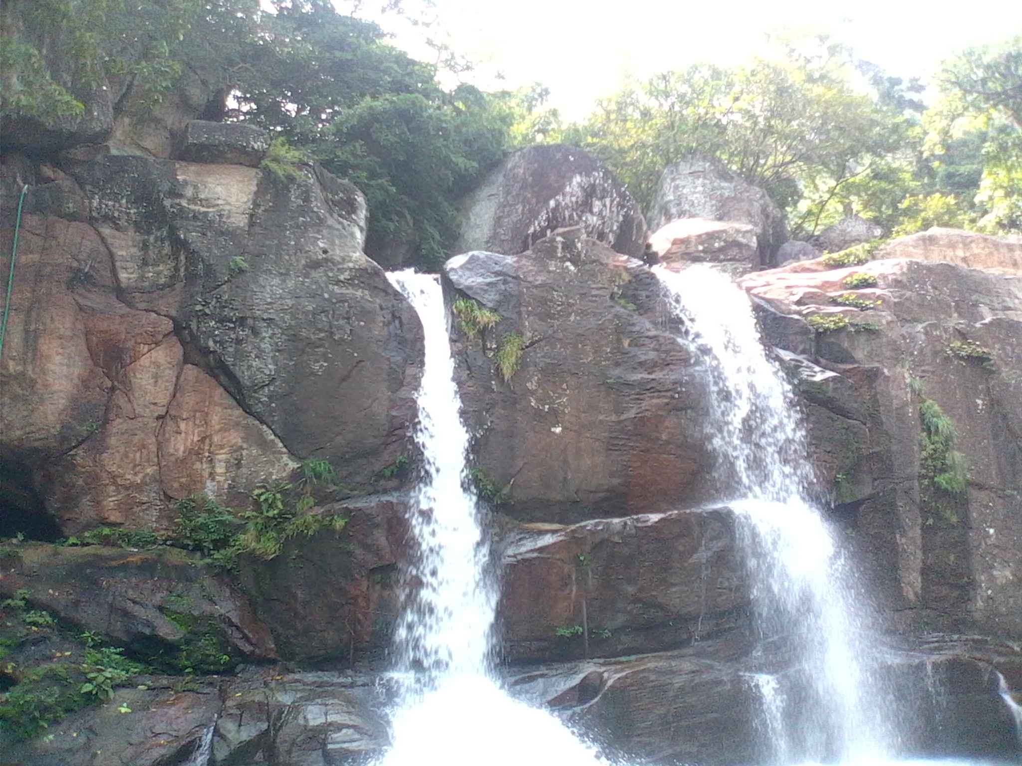 chambadevi falls is a beautiful water fall situated near chambadevi temple in courtallum about 1 km above the main falls